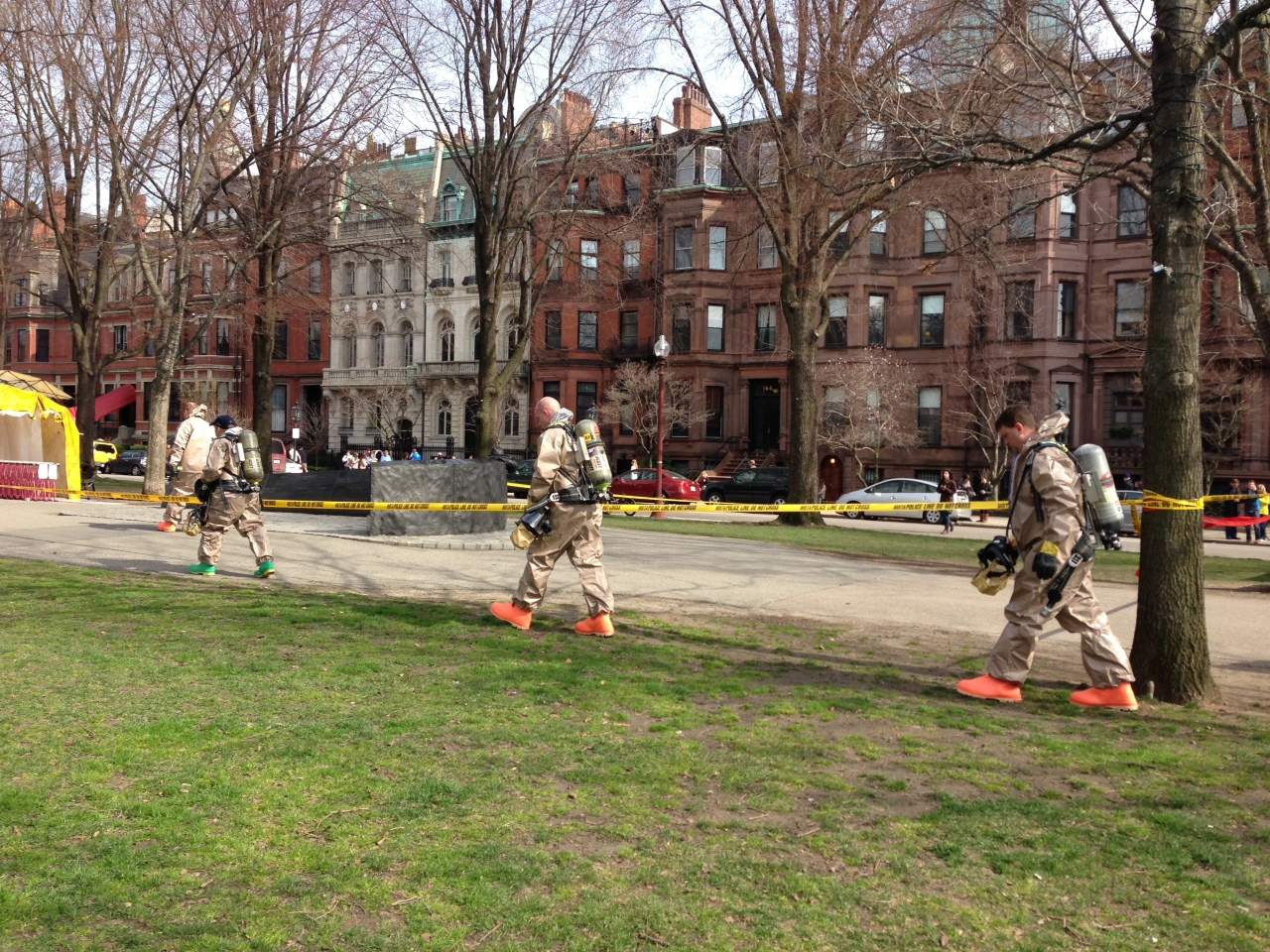 A hazmat biohazard team on Commonwealth Avenue near the finish line of the 2013 Boston Marathon after the explosions there.